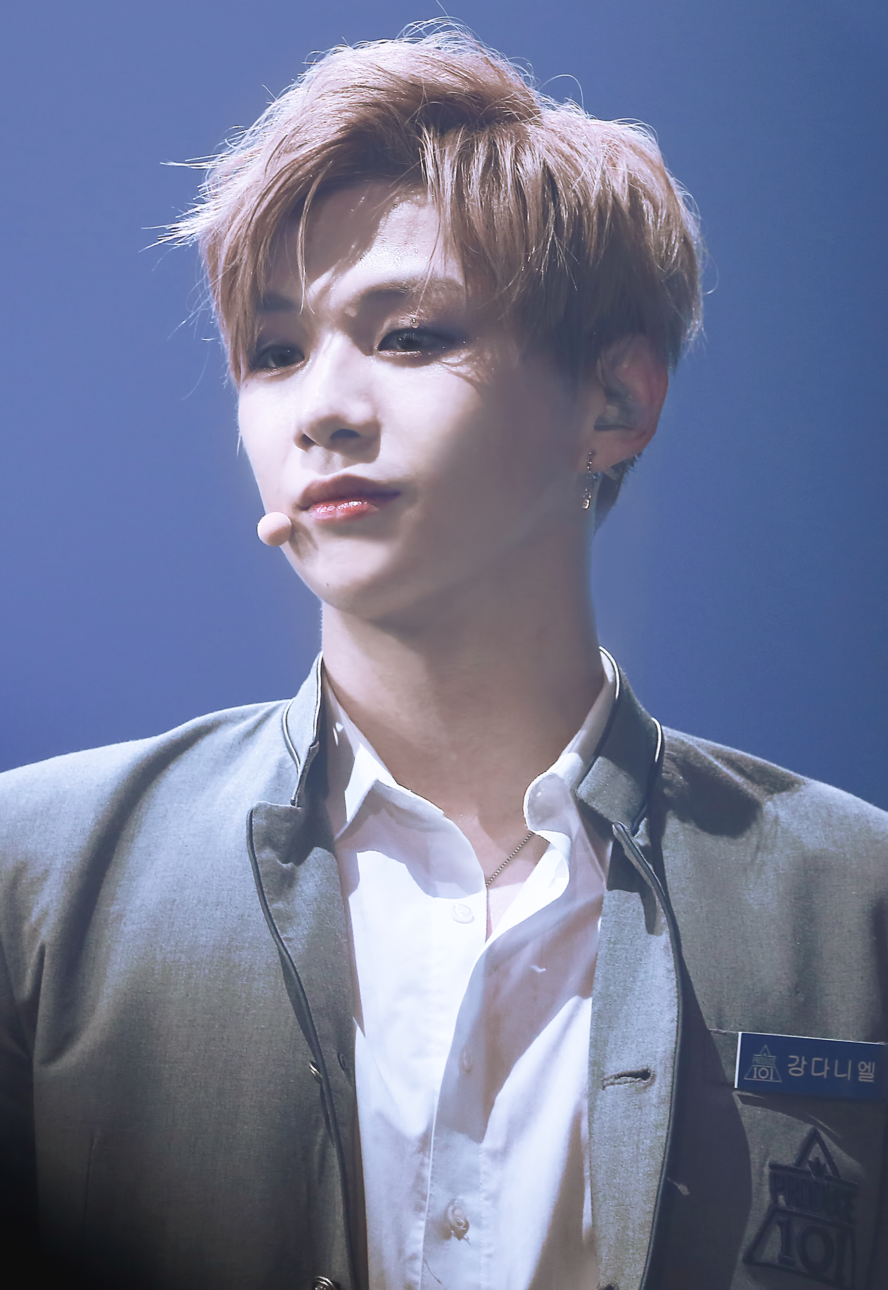 Kang Daniel during the Produce101 Concert on July 2, 2017.